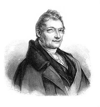 Franz Xaver Gabelsberger, 19th century German inventor of a system of shorthand, (1900). Born in Munich, Gabelsberger (1789-1849) devised the system of shorthand writing that is named after him.